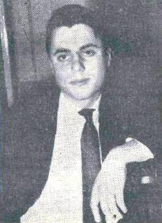 Peter Jambrek (1940-), Slovene lawyer and politician